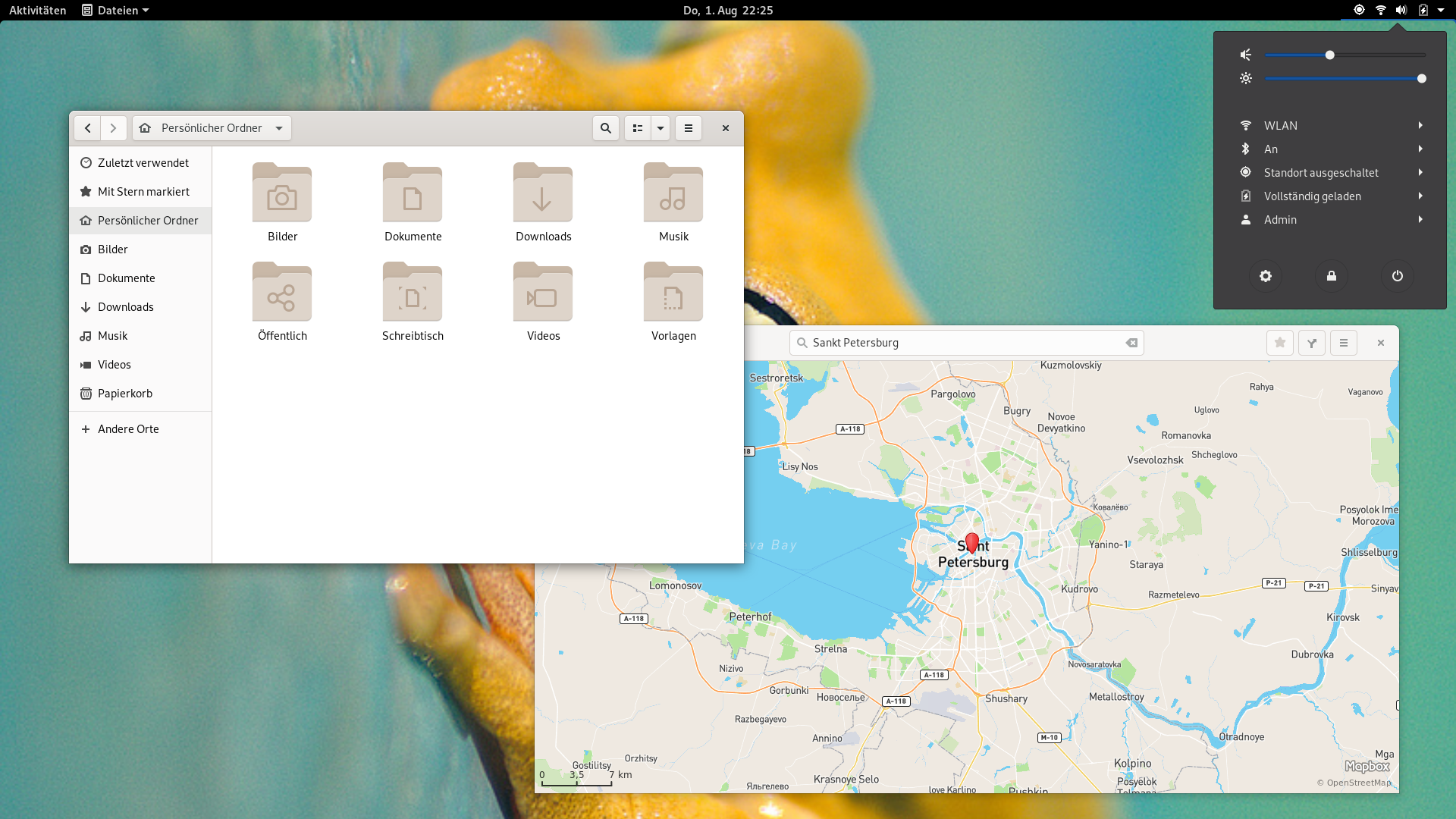 GNOME 3.32 desktop with file manager nautilus, maps view and open session menu.